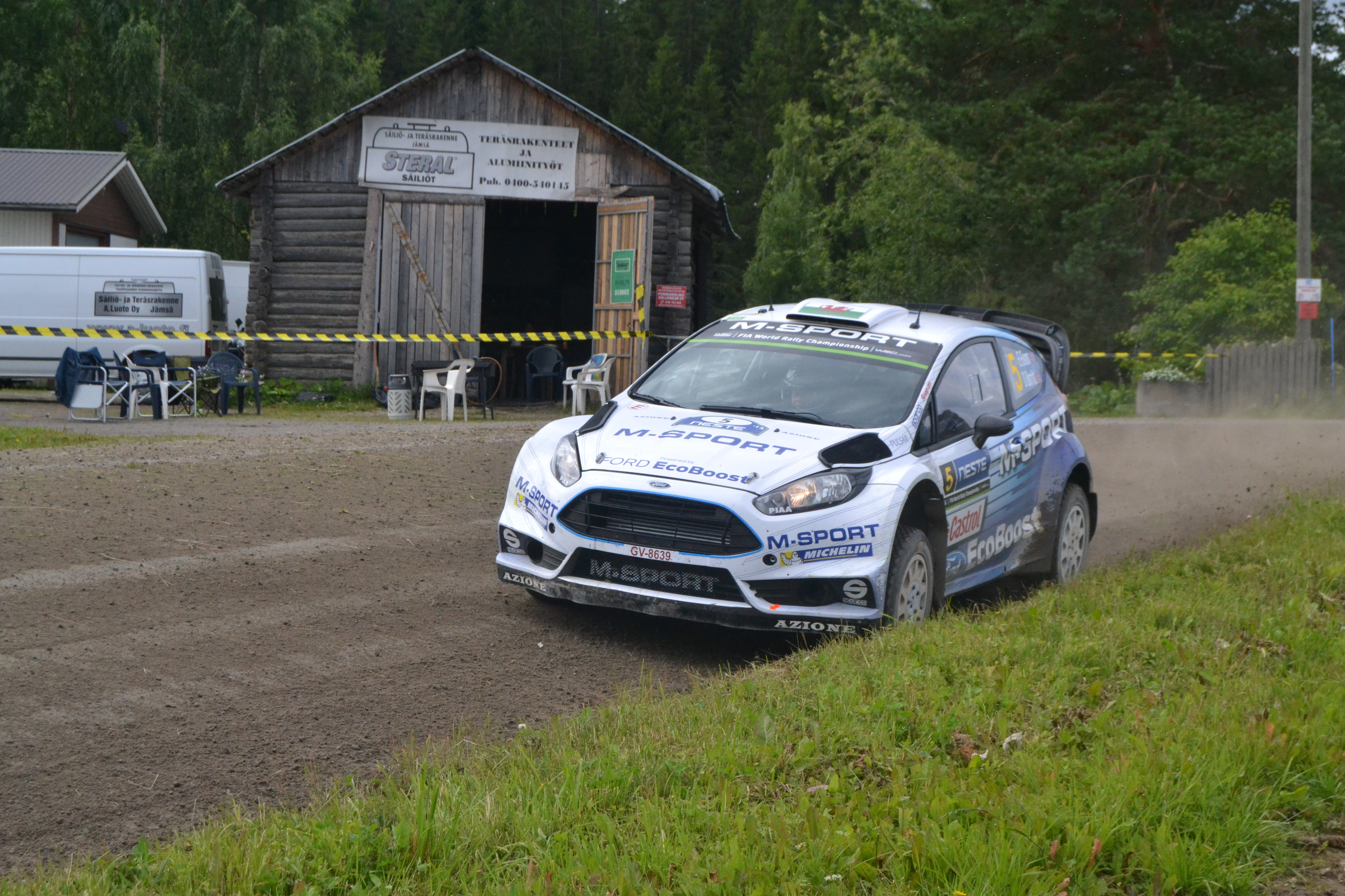 Elfyn Evans at 1st Ouninpohja stage at Rally Finland 2015